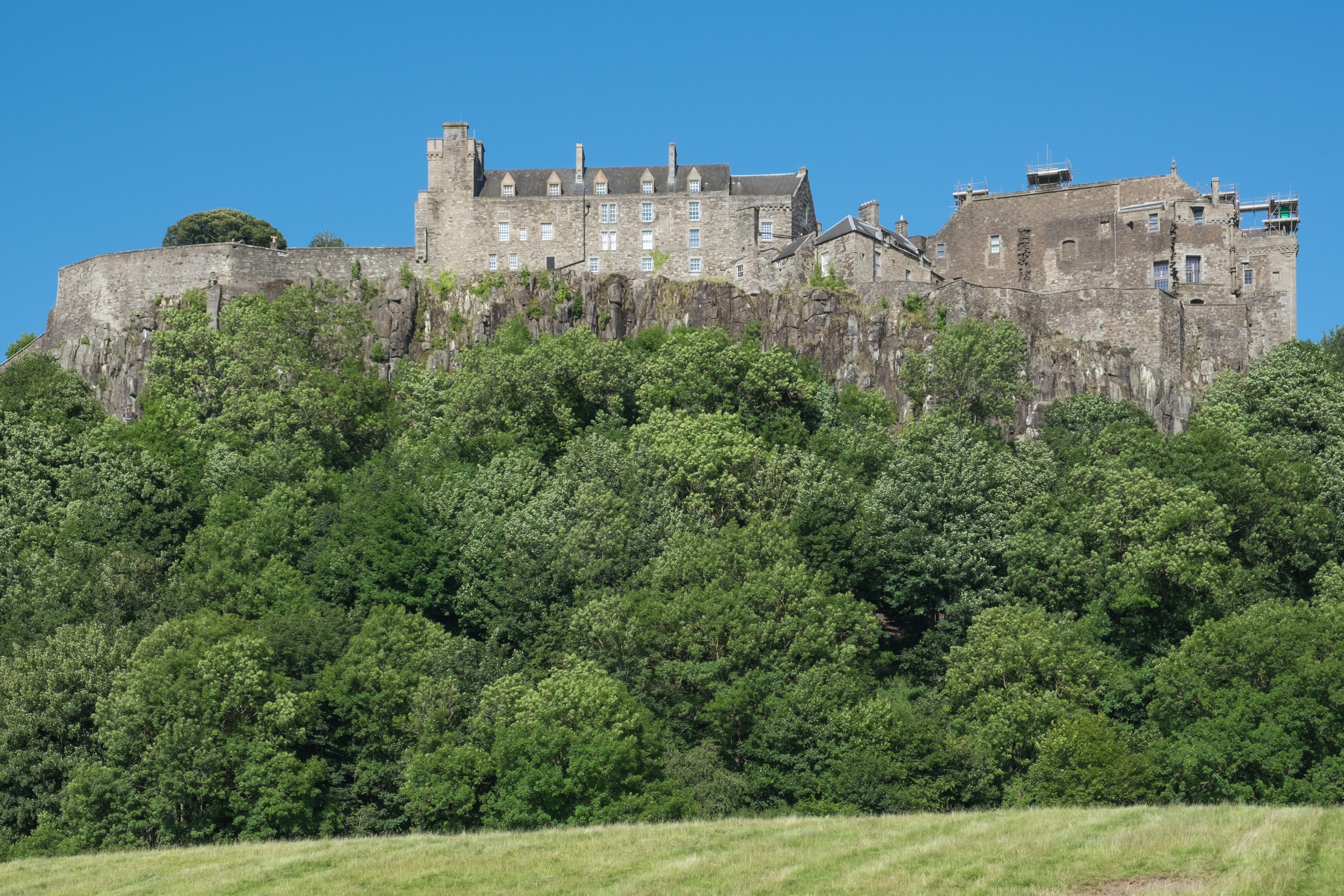 Stirling Castle, which stands on a volcanic outcrop, viewed from Raploch Road, Stirling.